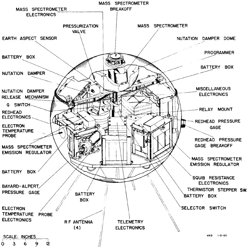 Scheme of Explorer 17.